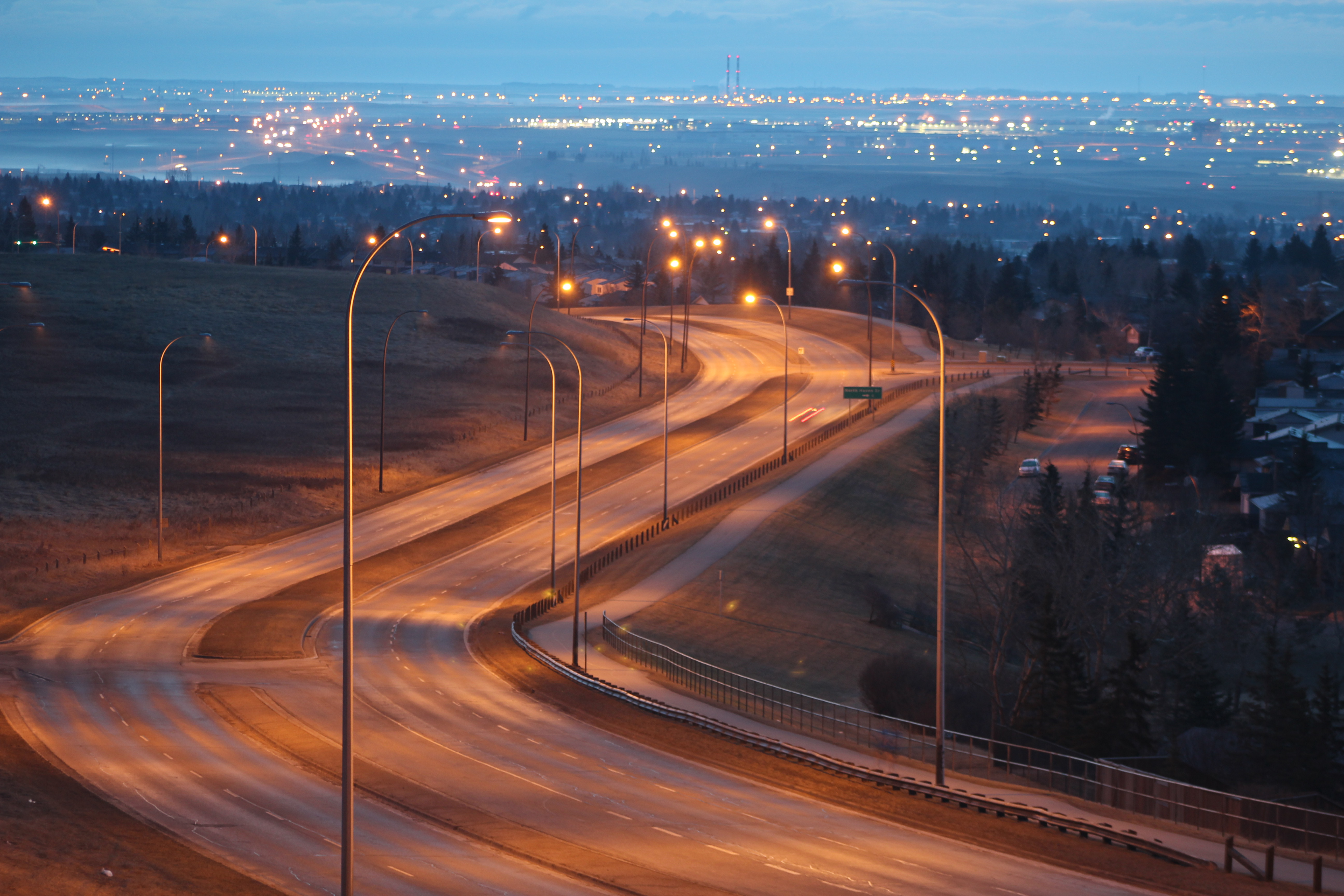 Not much traffic on the road this morning.I bumped into 1 person on the hill he was collecting bottles and cans, so i stopped to say hello, he was very well spoken and offered some great photographic advise,He was very knowledgable about cameras, obviously old school when you had to know how to set up a shot and the camera, I learnt a lot. just goes to show you never know who someone is,and never judge by appearance.